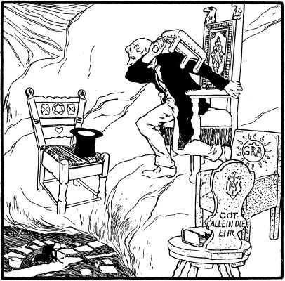 Illustration by Otto Ubbelohde to the fairy tale The Tailor in Heaven